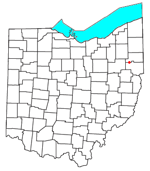 Locator map of the unincorporated community of Damascus in Mahoning County, Ohio, United States.